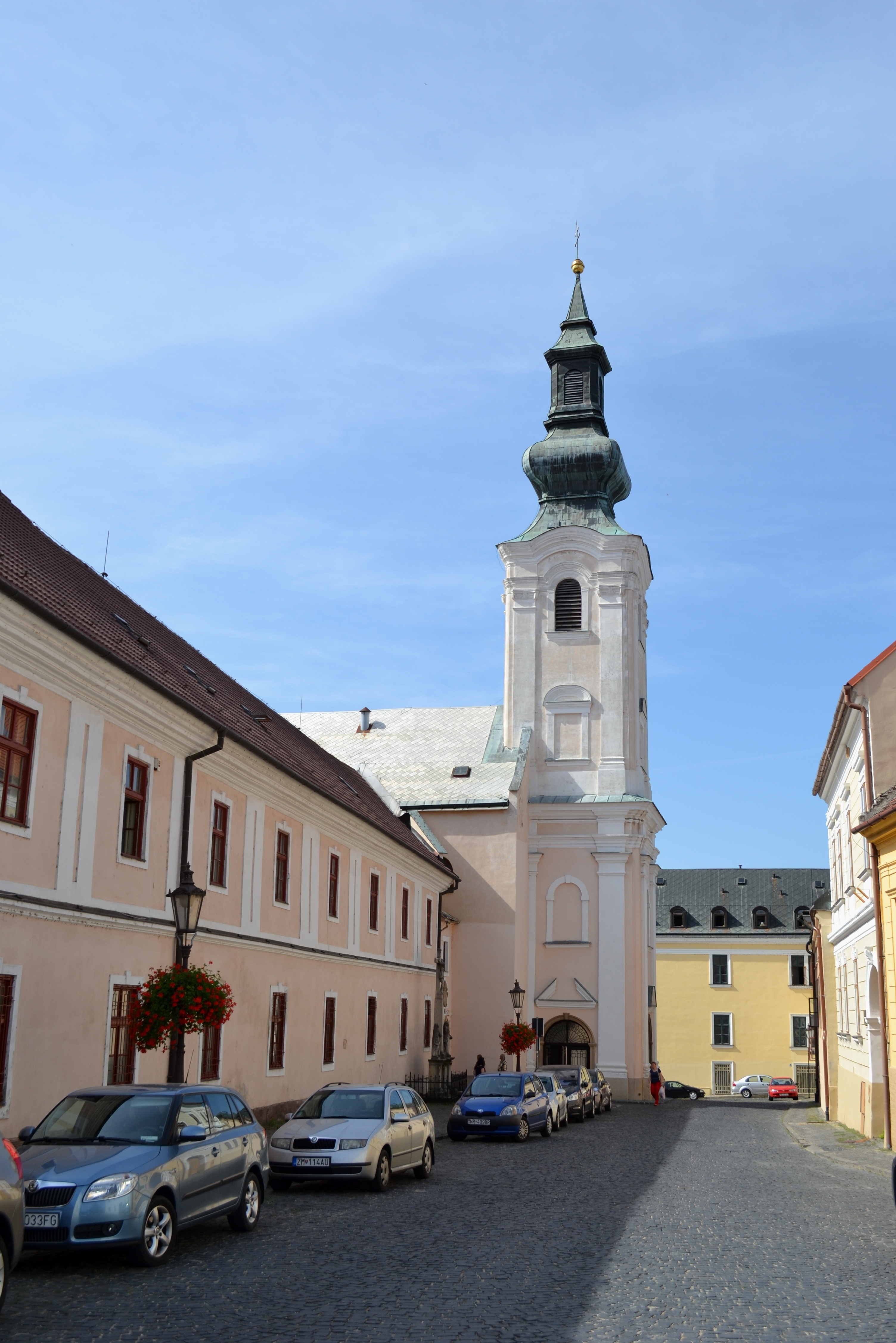 Franciscan monastery with the church of Sts Peter and PaulSlovenčina: Kláštor františkánov s kostolom svätého Petra a Pavla